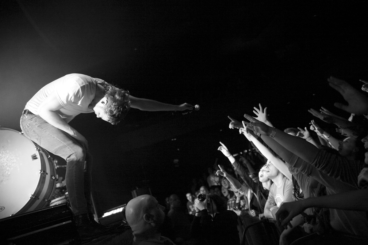 Imagine Dragons performing "Radioactive" The Pageant, Saint Louis, MO on March 6, 2013.